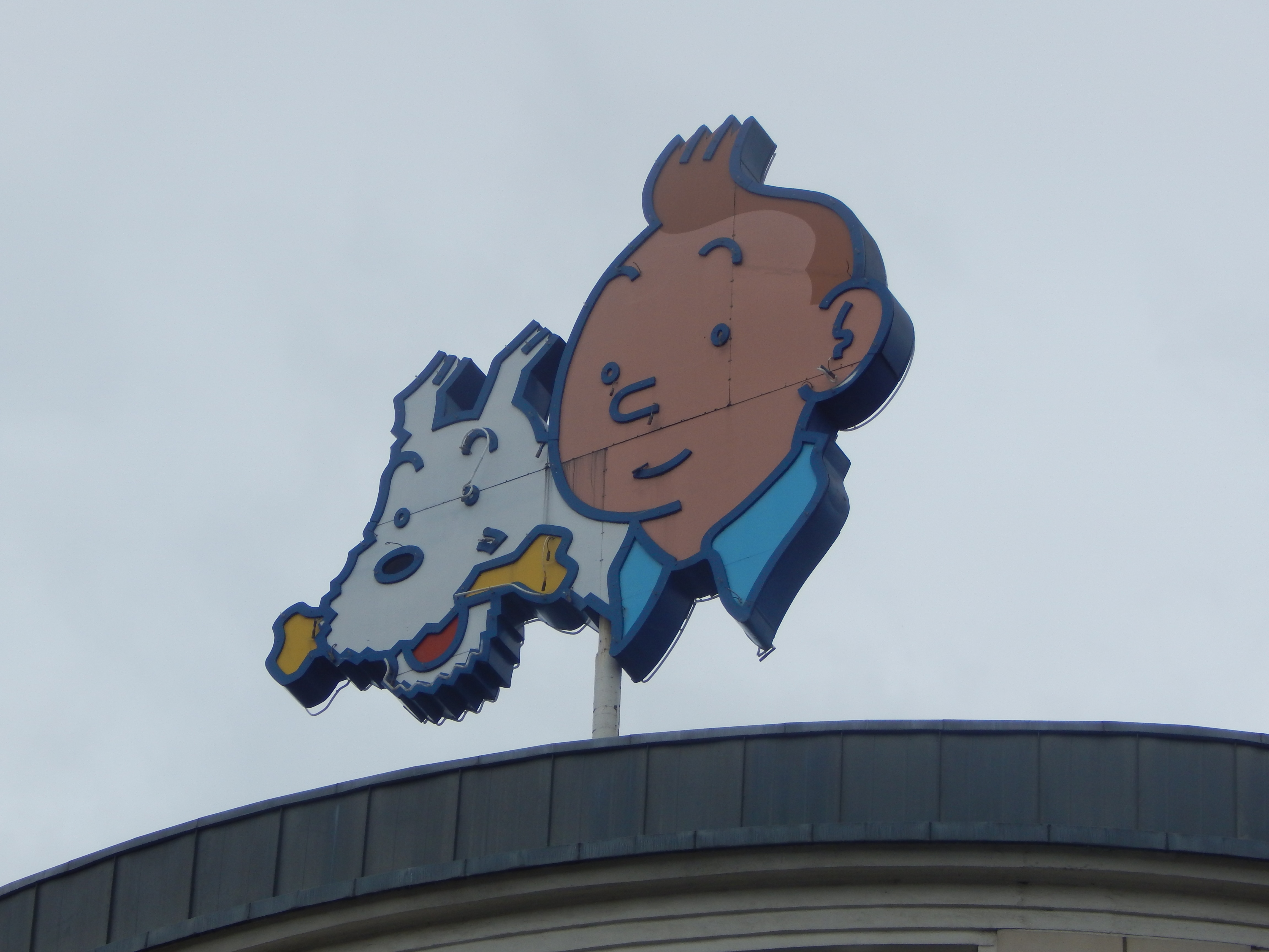 Tintin et Milou at Avenue Paul-Henri Spaak